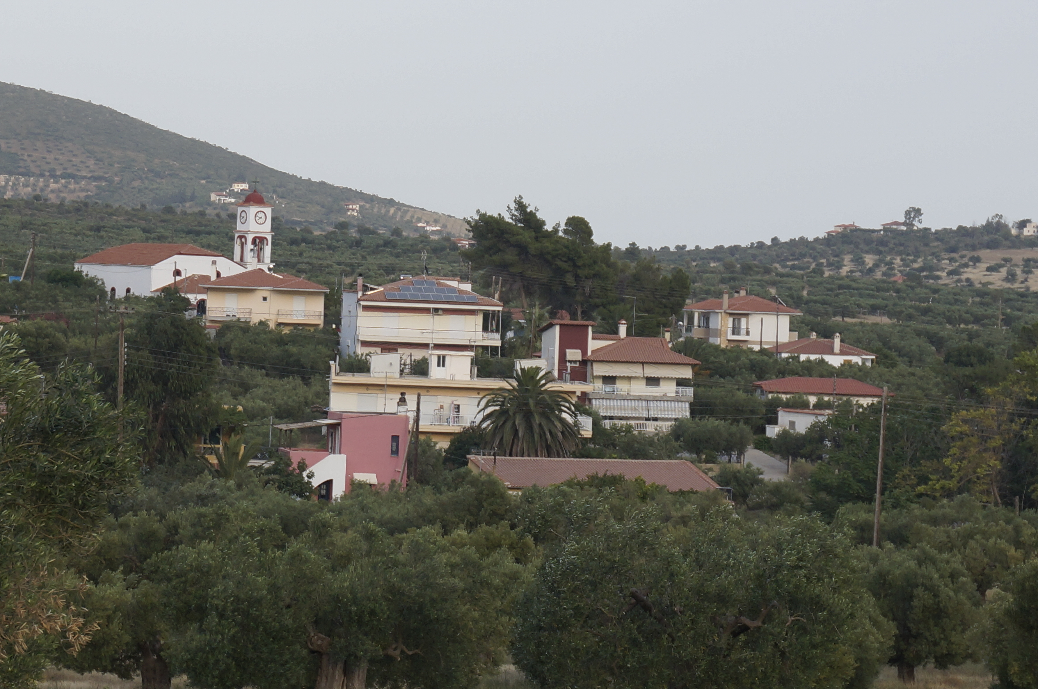 Yerakini village with its church of patron saints of Agii Theodori, as seen from west, Chalkidiki, Central Macedonia, Greece, Jun 2014